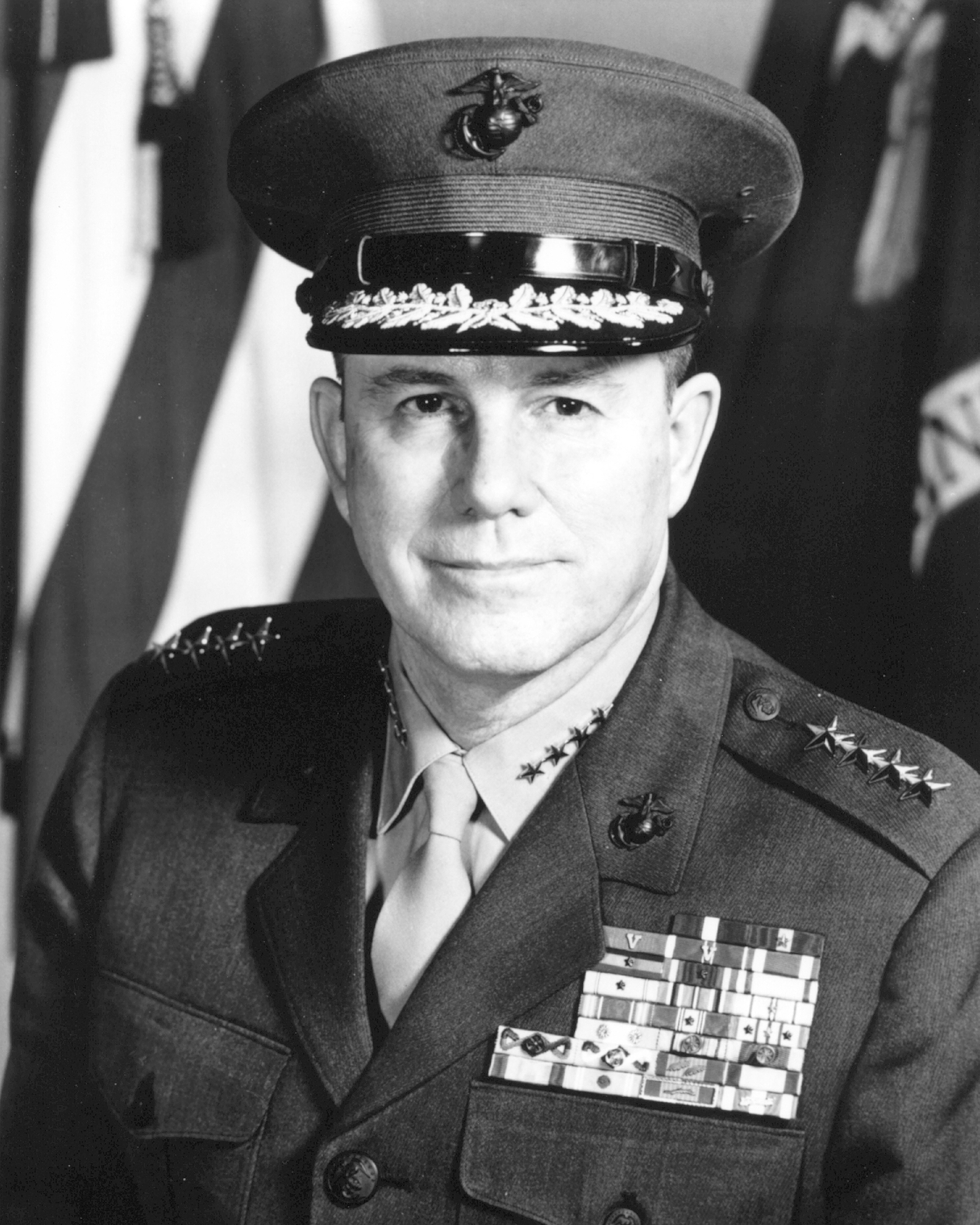 General Robert E. Cushman, Jr., USMC, Commandant of the Marine Corps